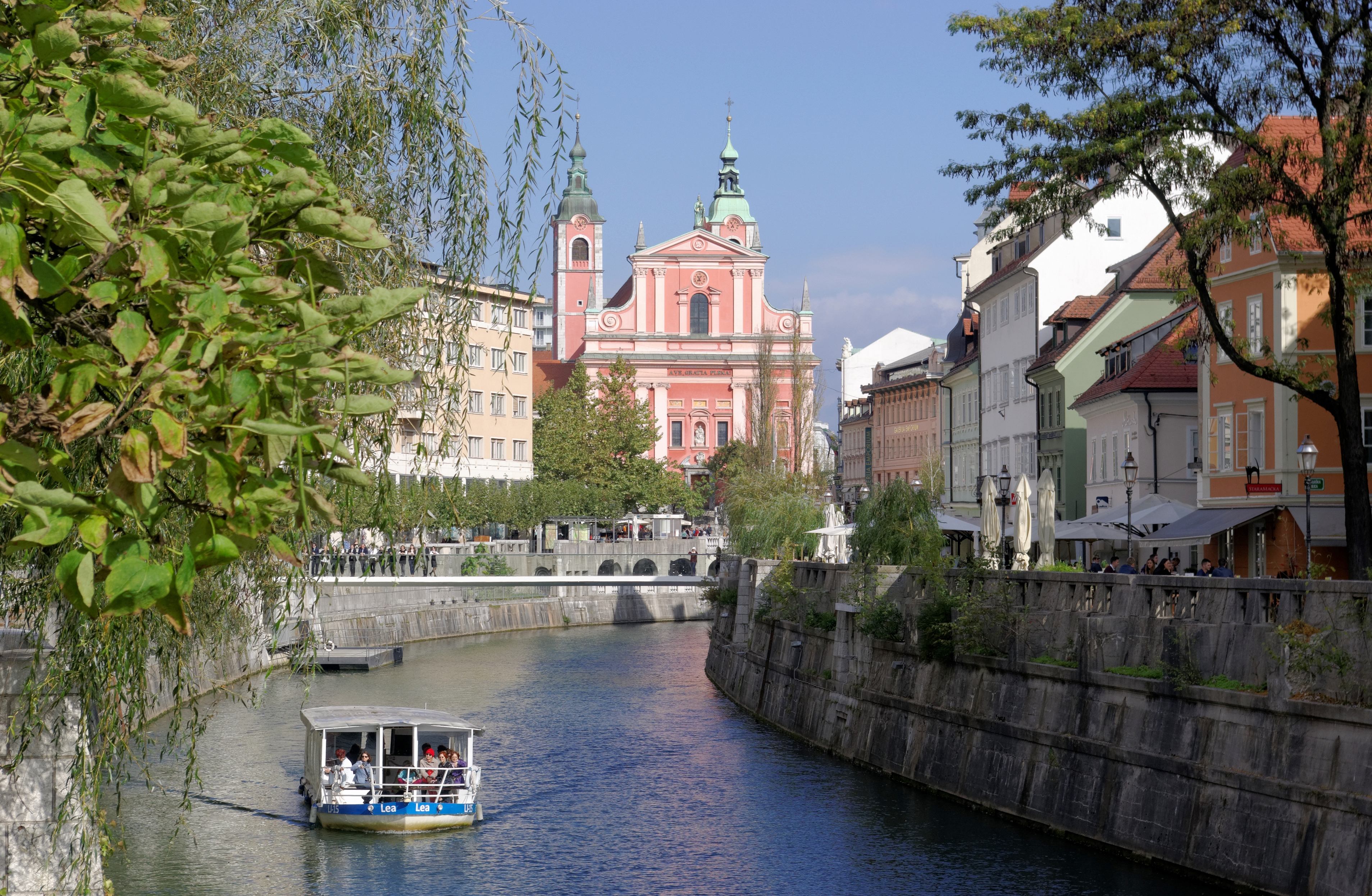 Slovenia, Ljubljana, Ljubljanica with Annunciation Church